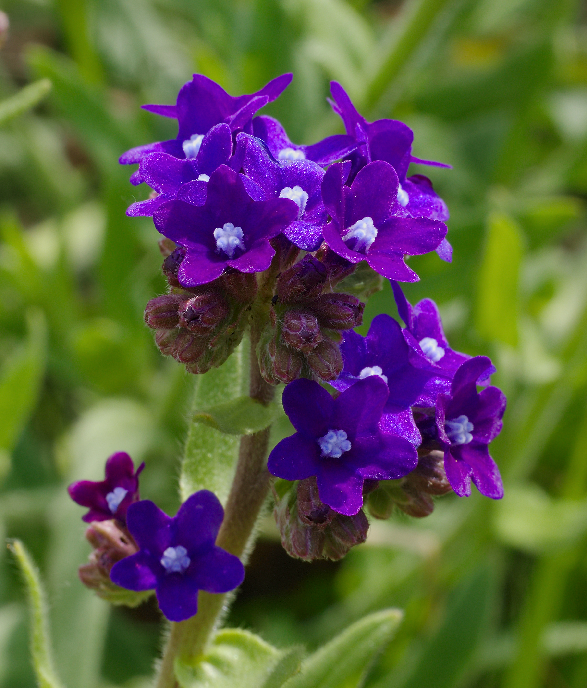 Common bugloss - Anchusa officinalis. Taken in Ahrensberg (Wesenberg), Mecklenburg-Western Pomerania, Germany.